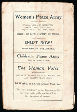 The Women's Peace Army was formed in Melbourne, Victoria, Australia on 8 July 1915 during a meeting of the Women’s Political Association presided by Vida GoldsteinZVida Goldstein, a noted suffragist and pacifist - date guessed at 1917